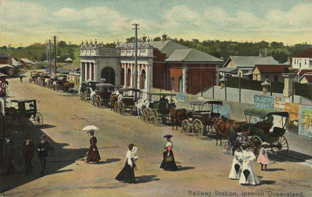 Ipswich Railway Station, Queensland, ca. 1906 Part of the Coloured Shell Series of postcards.